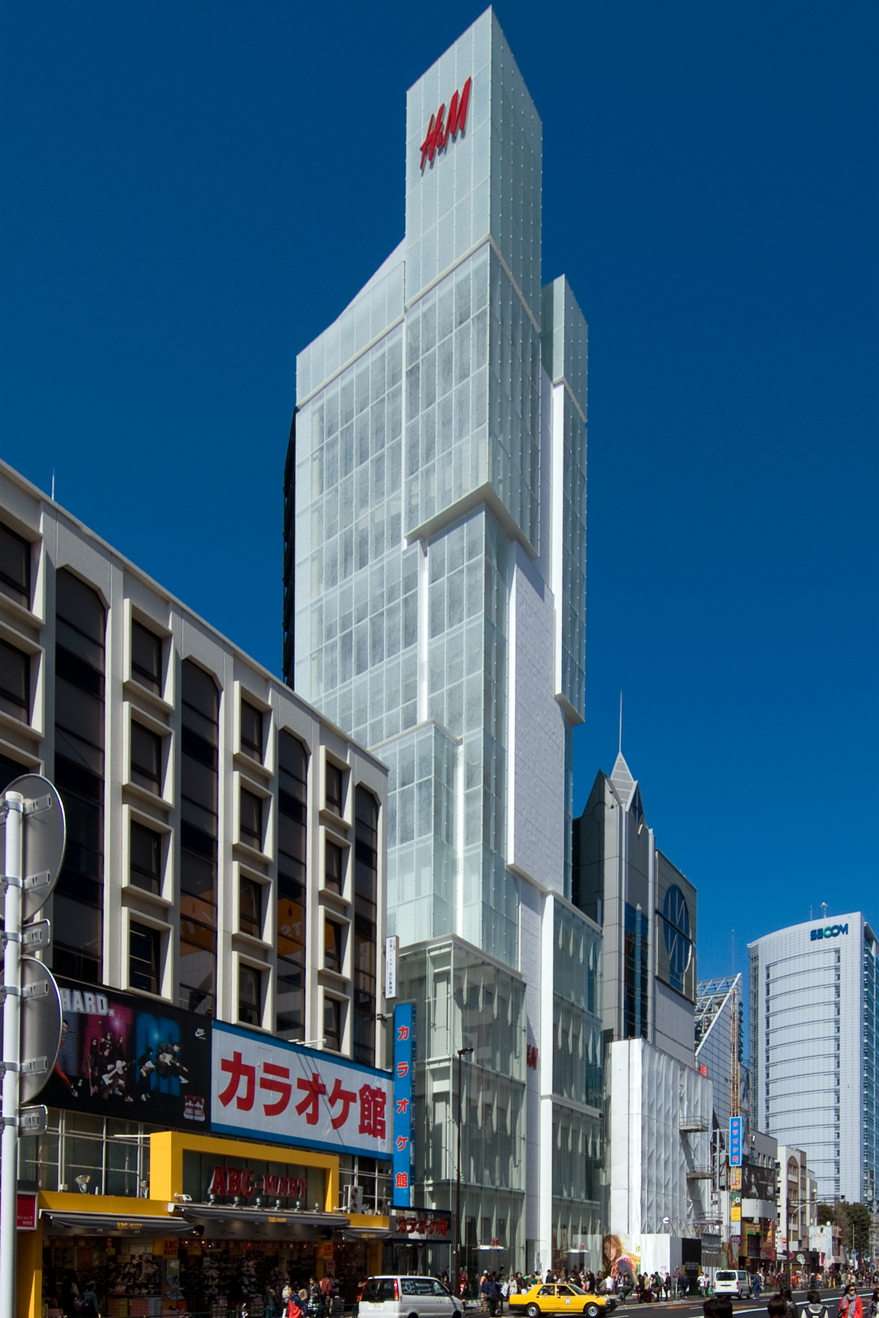 H&M Harajuku Store, at Shibuya-ku Tokyo Japan.